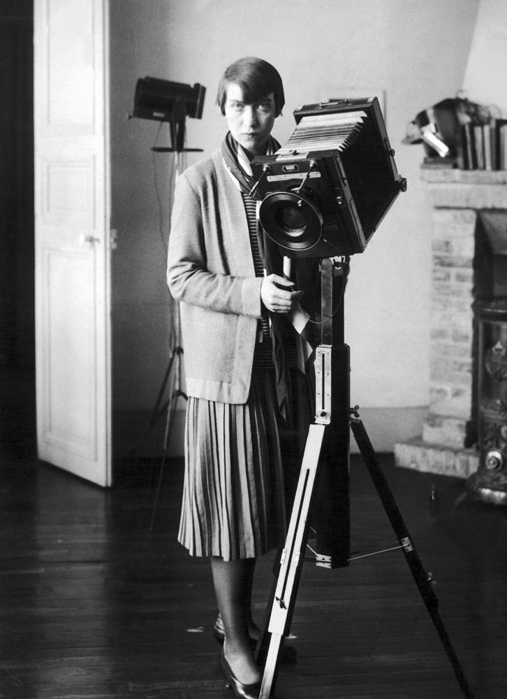 Berenice Abbott in an undated photo. Photographer and source unknown.